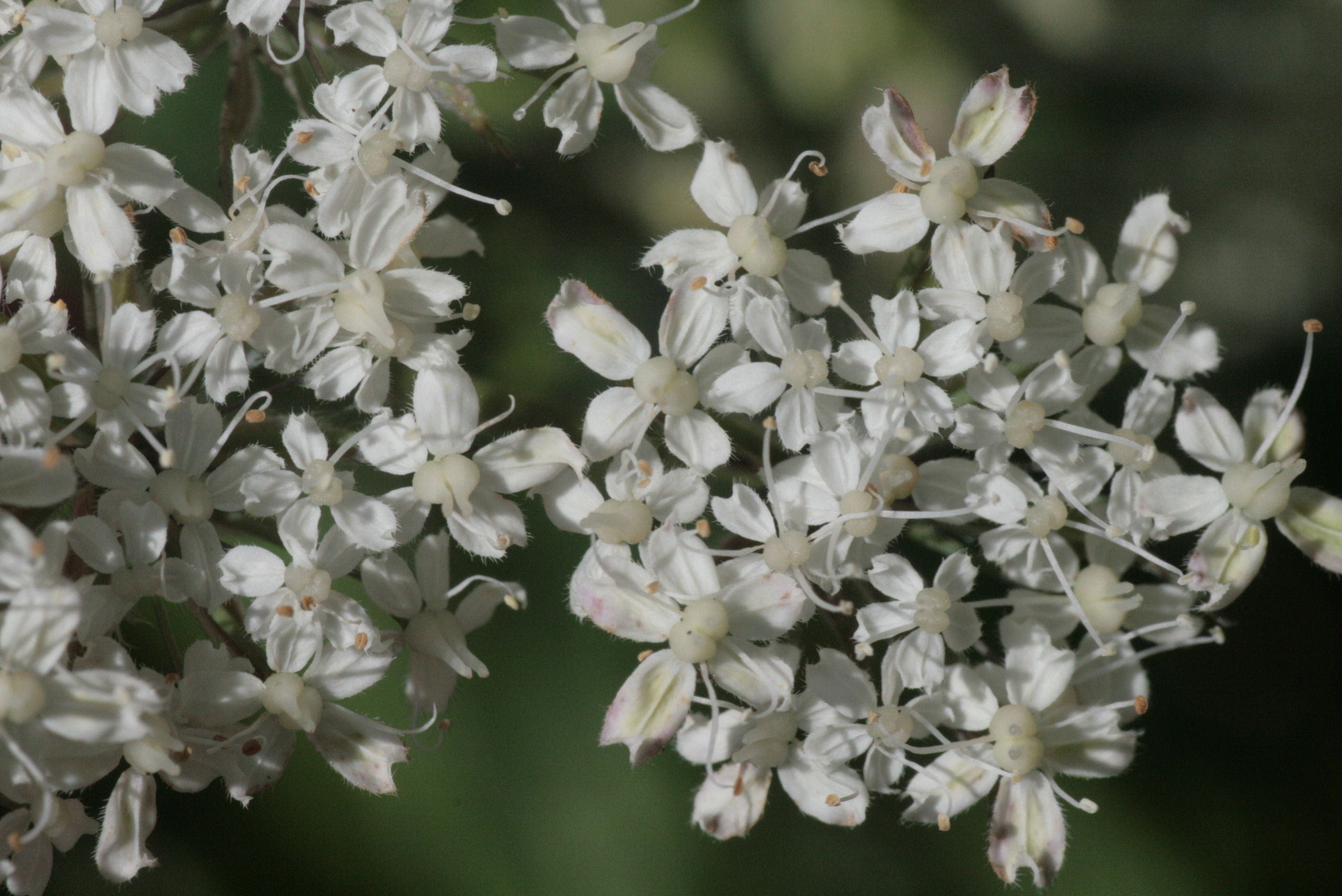 Chaerophyllum villarsii